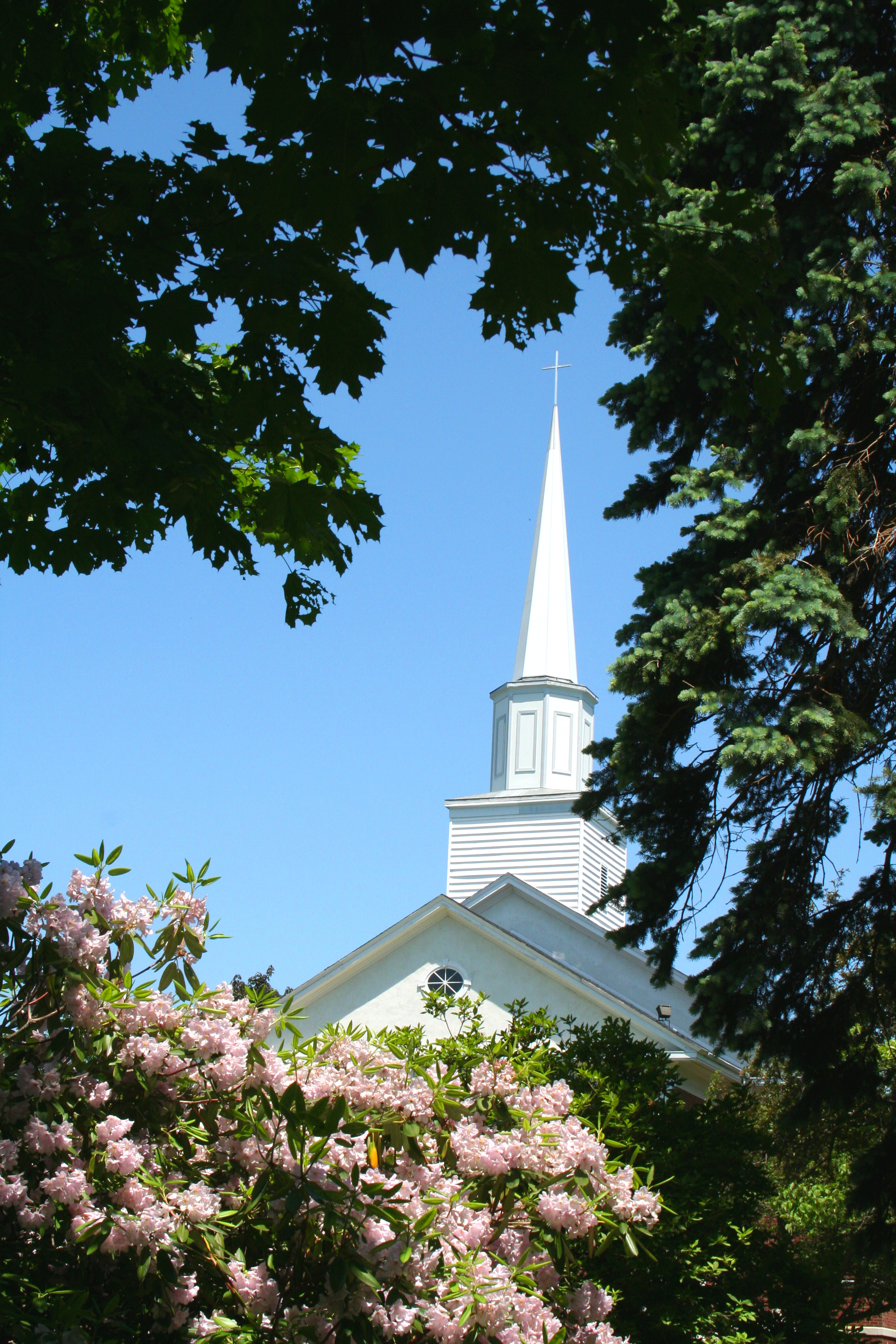 Steeple of the Wollaston Church of the Nazarene, viewed from the main campus of the Eastern Nazarene College in Wollaston Park.